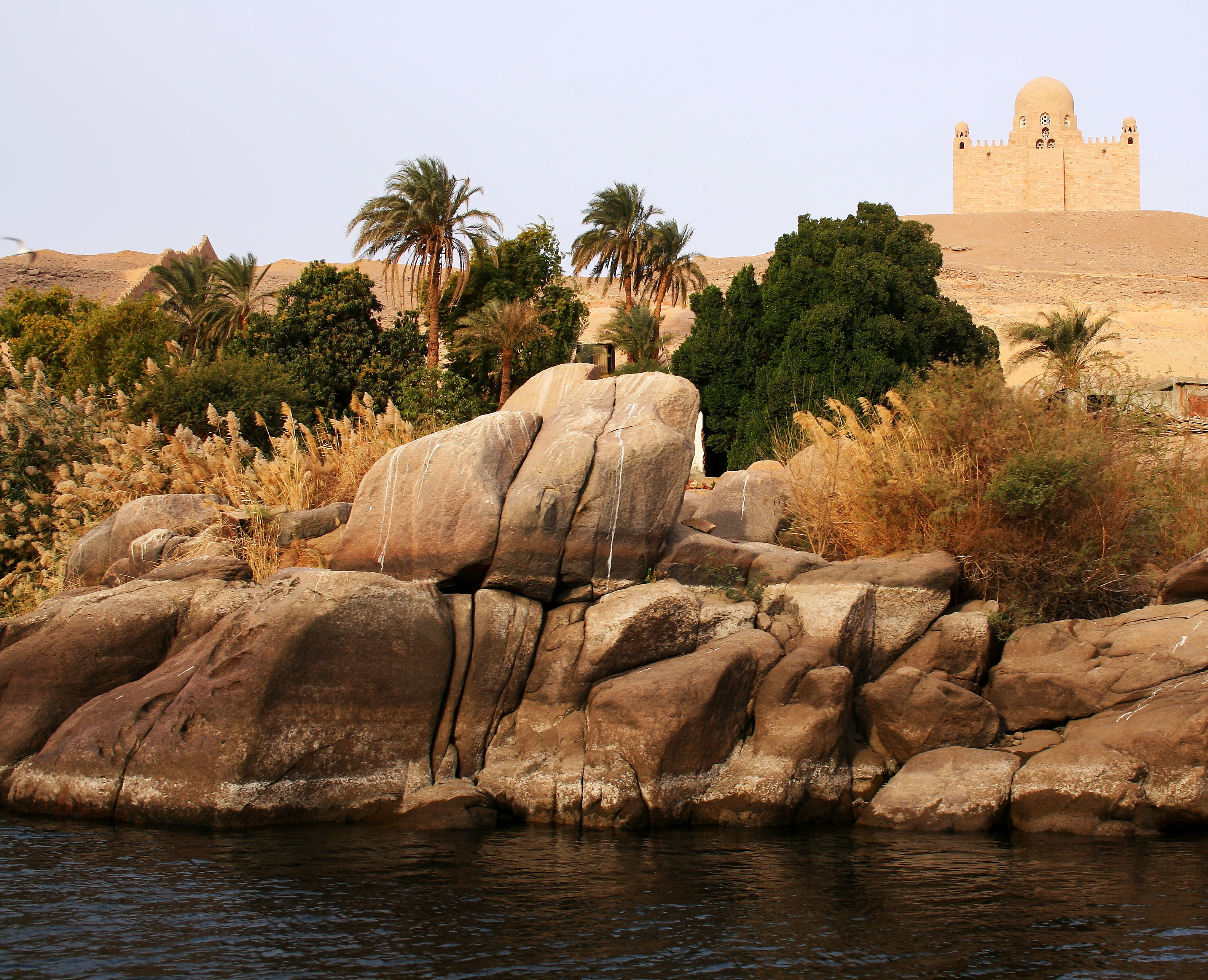 Mausoleum of Aga Khan - on the Nile in Asswan, Egypt.